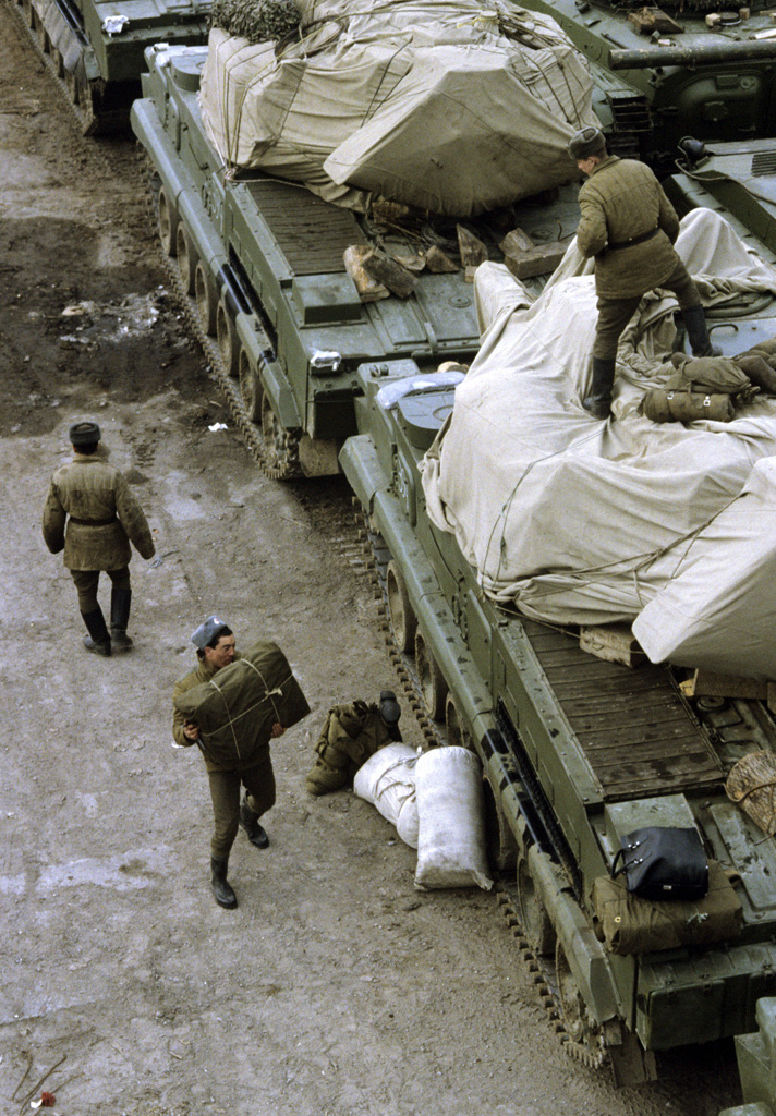 “Equipment and gear checkup before departure”. Equipment and gear checkup before departure to USSR. Soviet troops withdrawal from Germany.